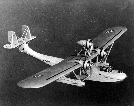 The Martin XP2M-1 undergoing flight tests, mid 1931.